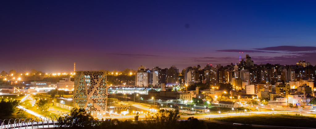 Cityscape of Nueva Cordoba neighborhood. Cordoba City, Argentina.